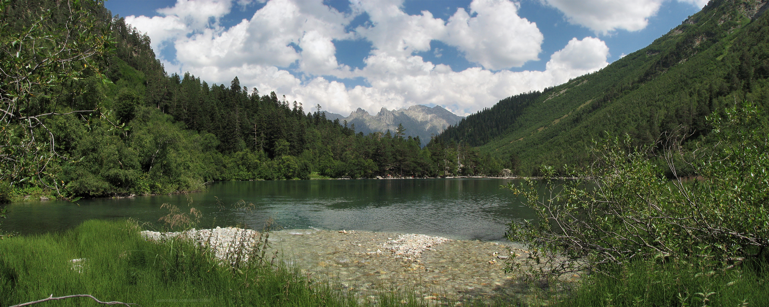 Panorama (3 frames), Russia, Caucasus, Karachay-Cherkessia, mountain lake, august 2008.